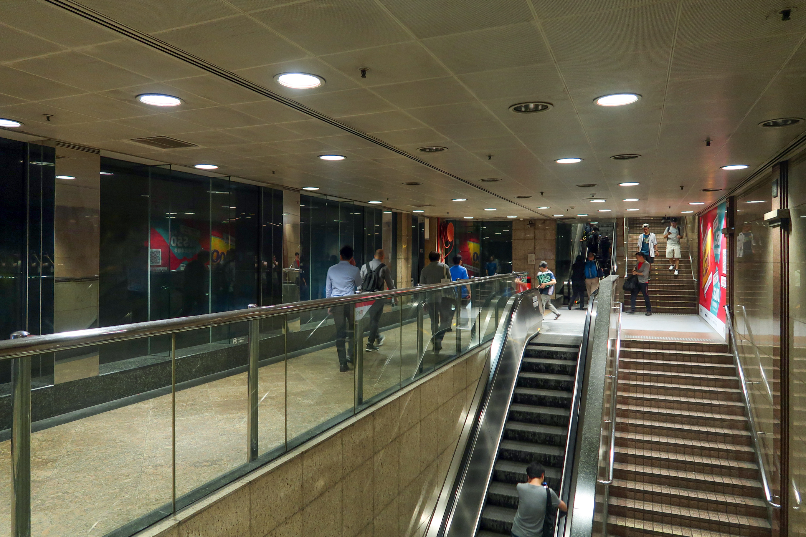 Grand Century Place Public Access to Mong Kok East station